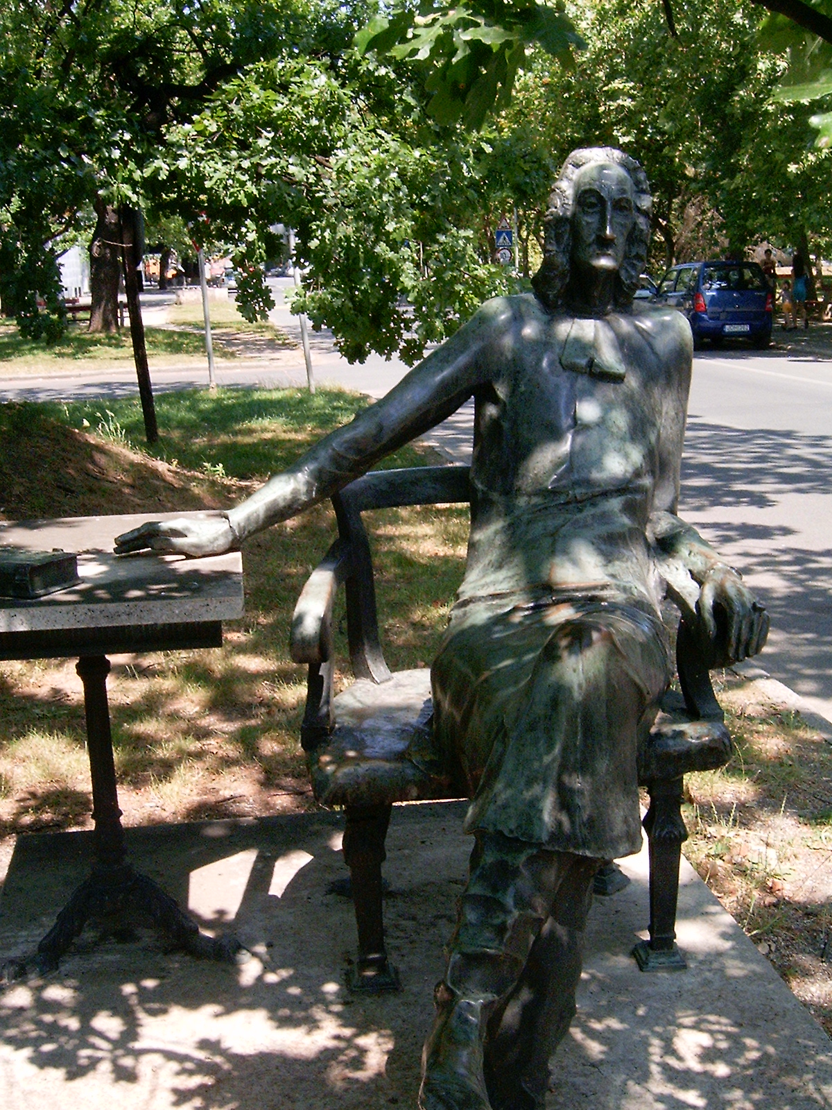 Statue of Istvan Hatvani (1718-1786), a medical doctor and professor of the University in Debrecen.